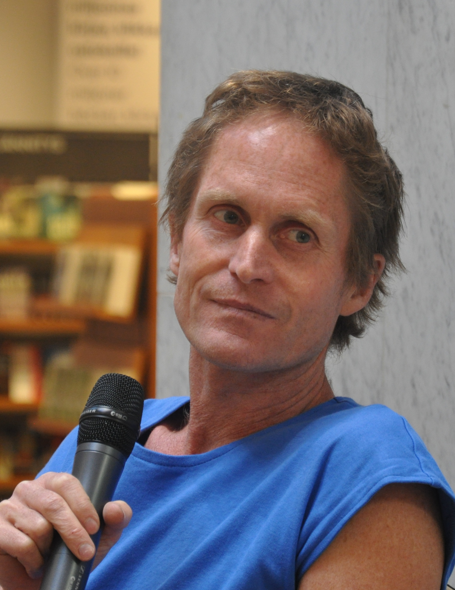 Danish writer Peter Høeg at Academic Bookstore in Helsinki, Finland, 2015.